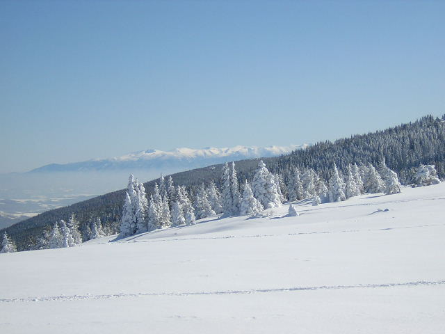 Winter landscape in Vitosha Mountains, Bulgaria, with Rila Mountains int he background.